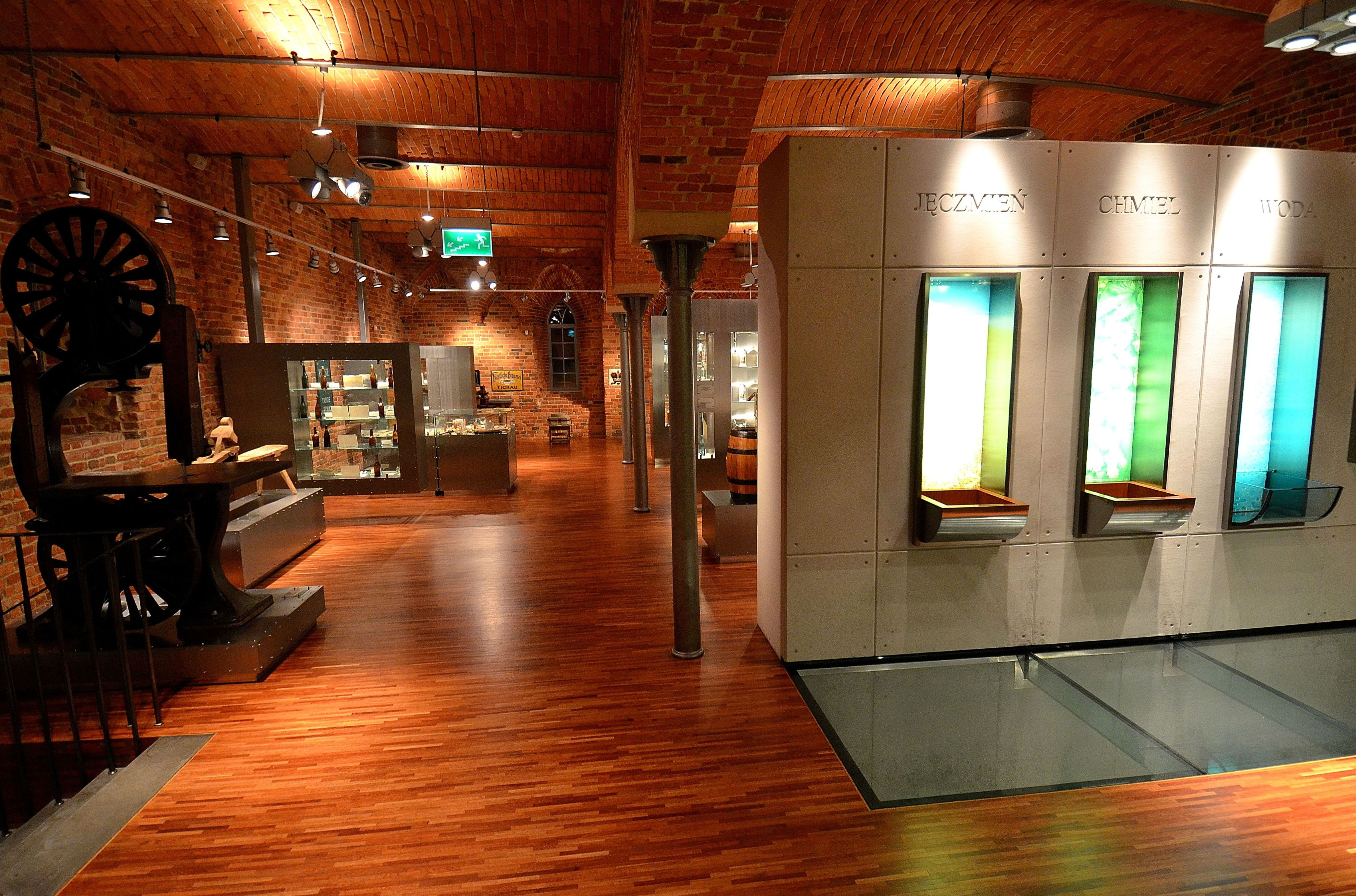 Interior of Tychy Brewery Museum